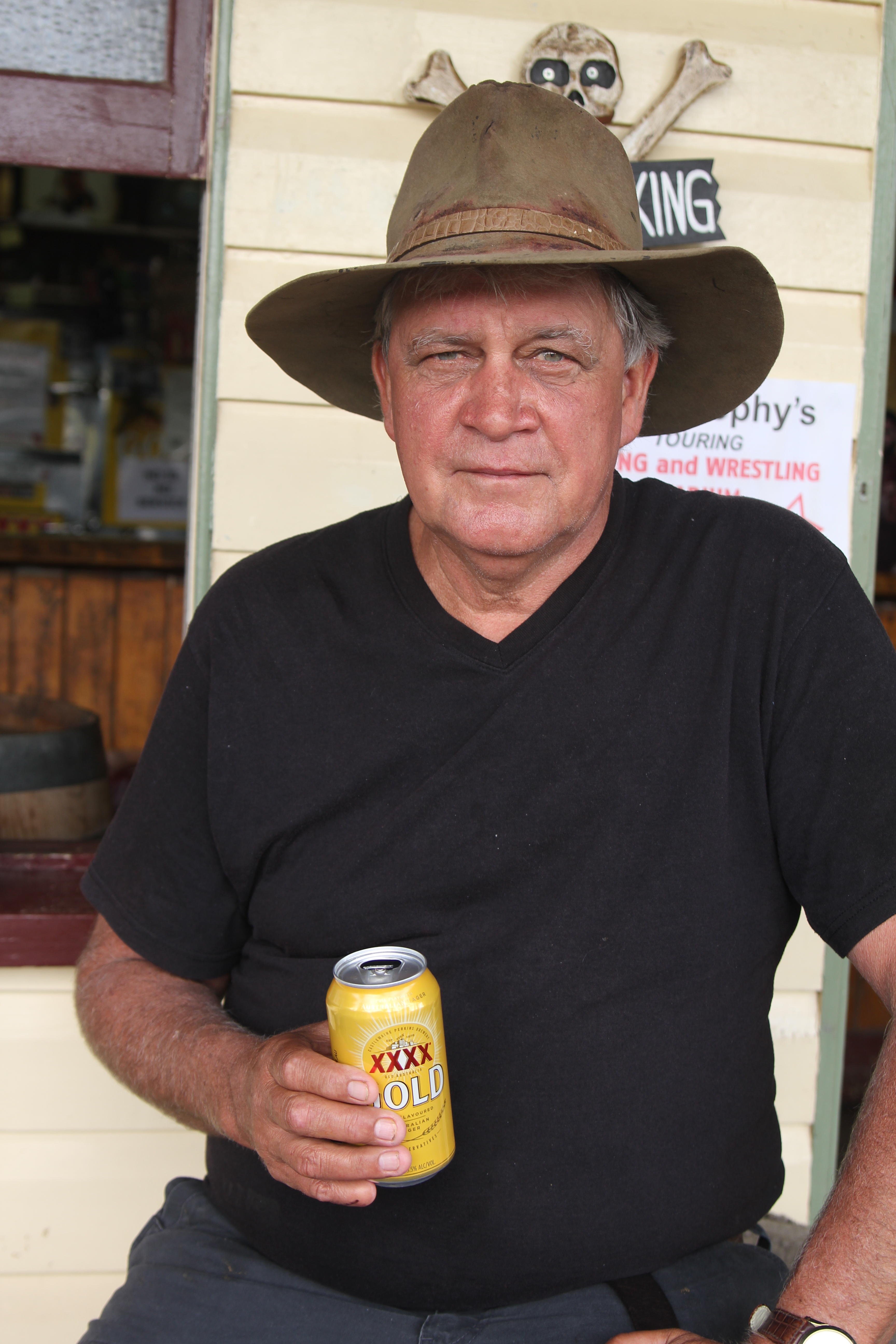 Fred Brophy sitting on the verandah of the Cracow Hotel, one of the two pubs he owns (the other being the Kilkivan Hotel). Fred, a fourth generation showman, runs Australia's last remaining boxing tent, known as Fred Brophy's Boxing Troupe. Note the can of XXXX Gold beer.